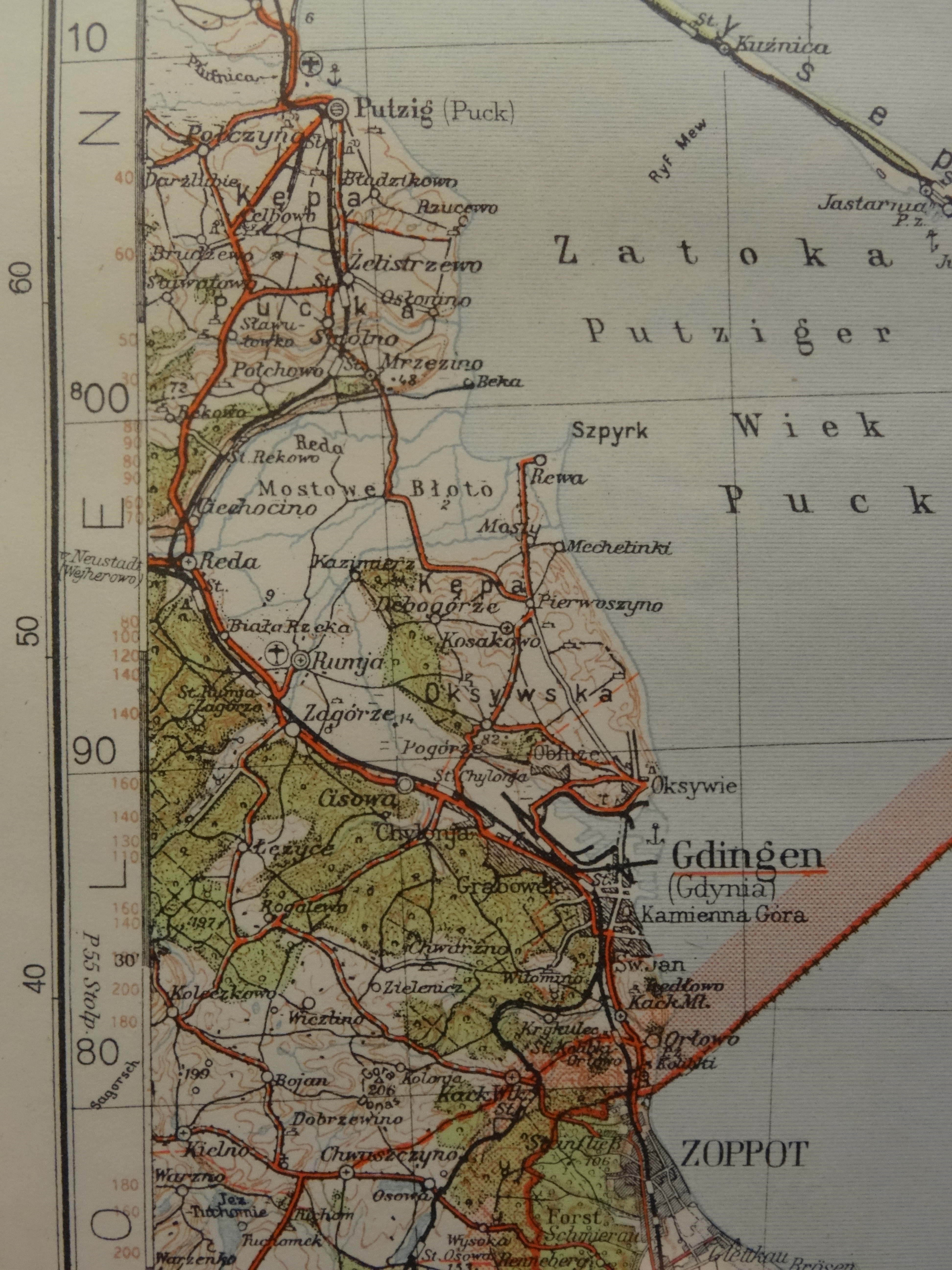 Rumia airport before 1939